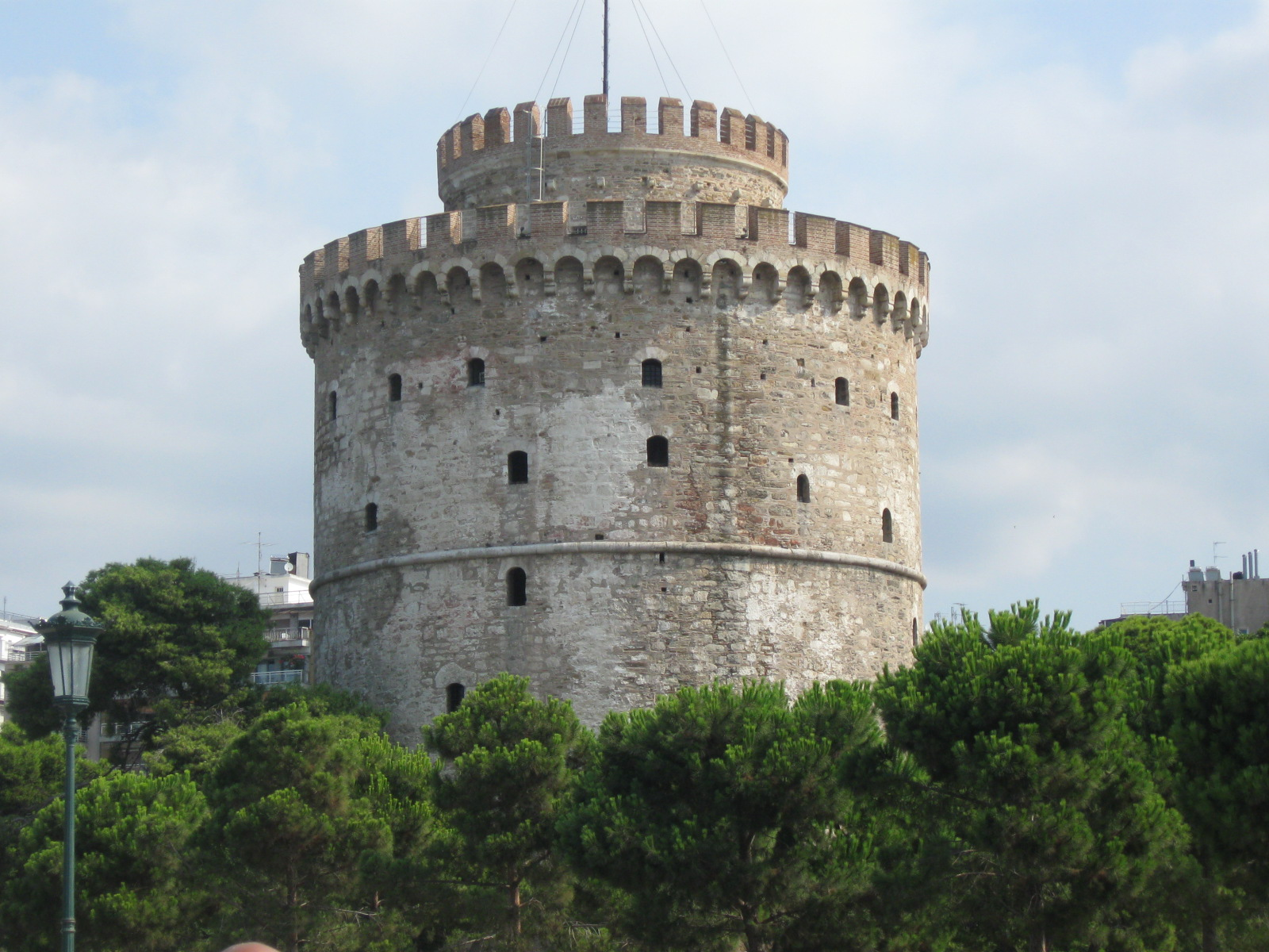 The white tower, Thesalloniki, Greece.